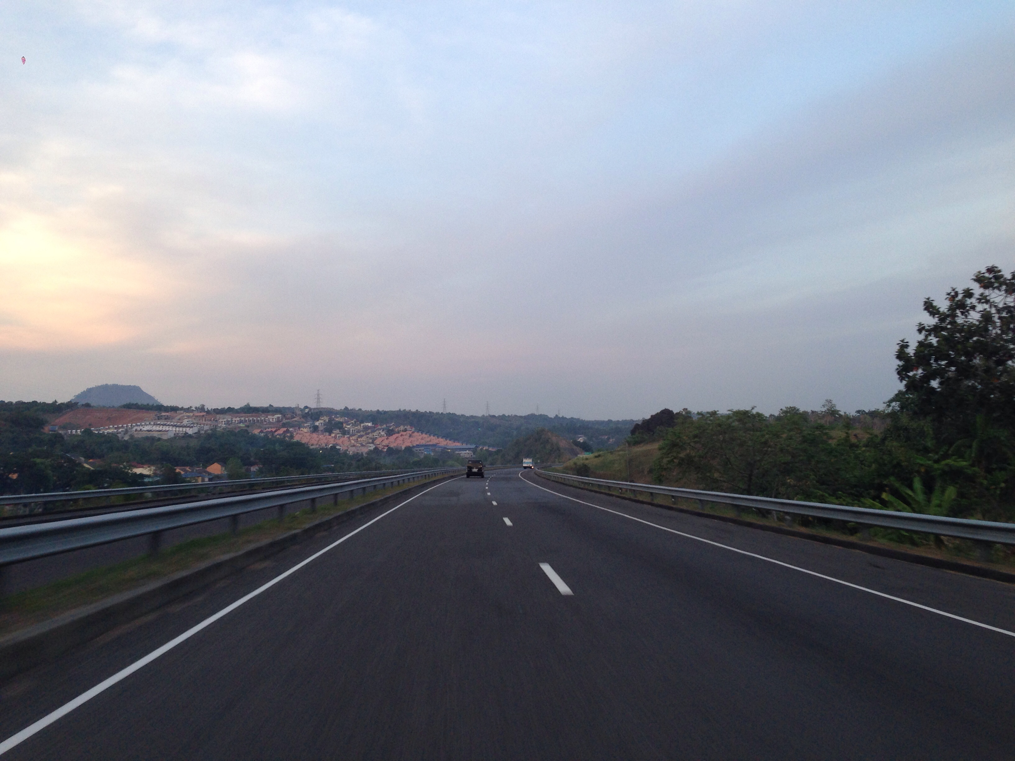 Subic–Clark–Tarlac Expressway northbound near Dinalupihan in Bataan